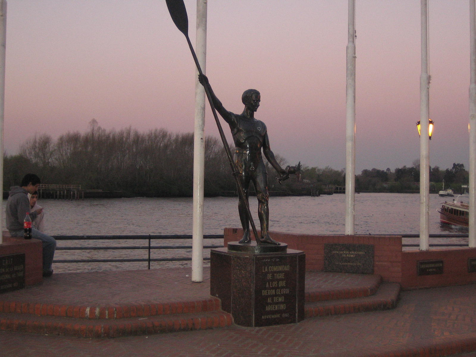 Luján river and Tigre river courner